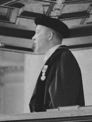 Eighty years of existence of the Free University of Amsterdam. The rector magnificus professor D. Folkert de Roos during the memorial address Date 21 October 1963